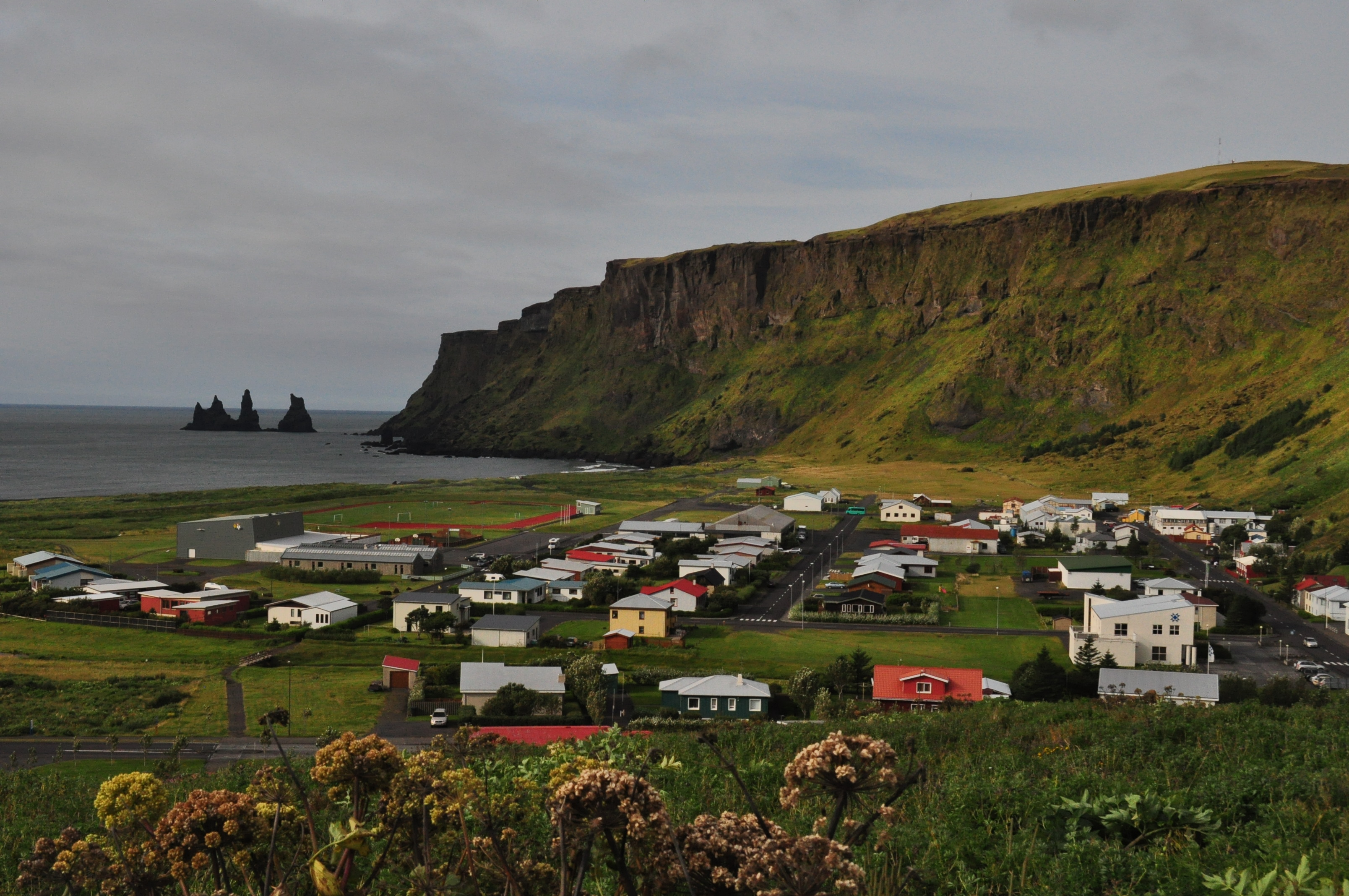 Village of Vík with the Reynisdrangar